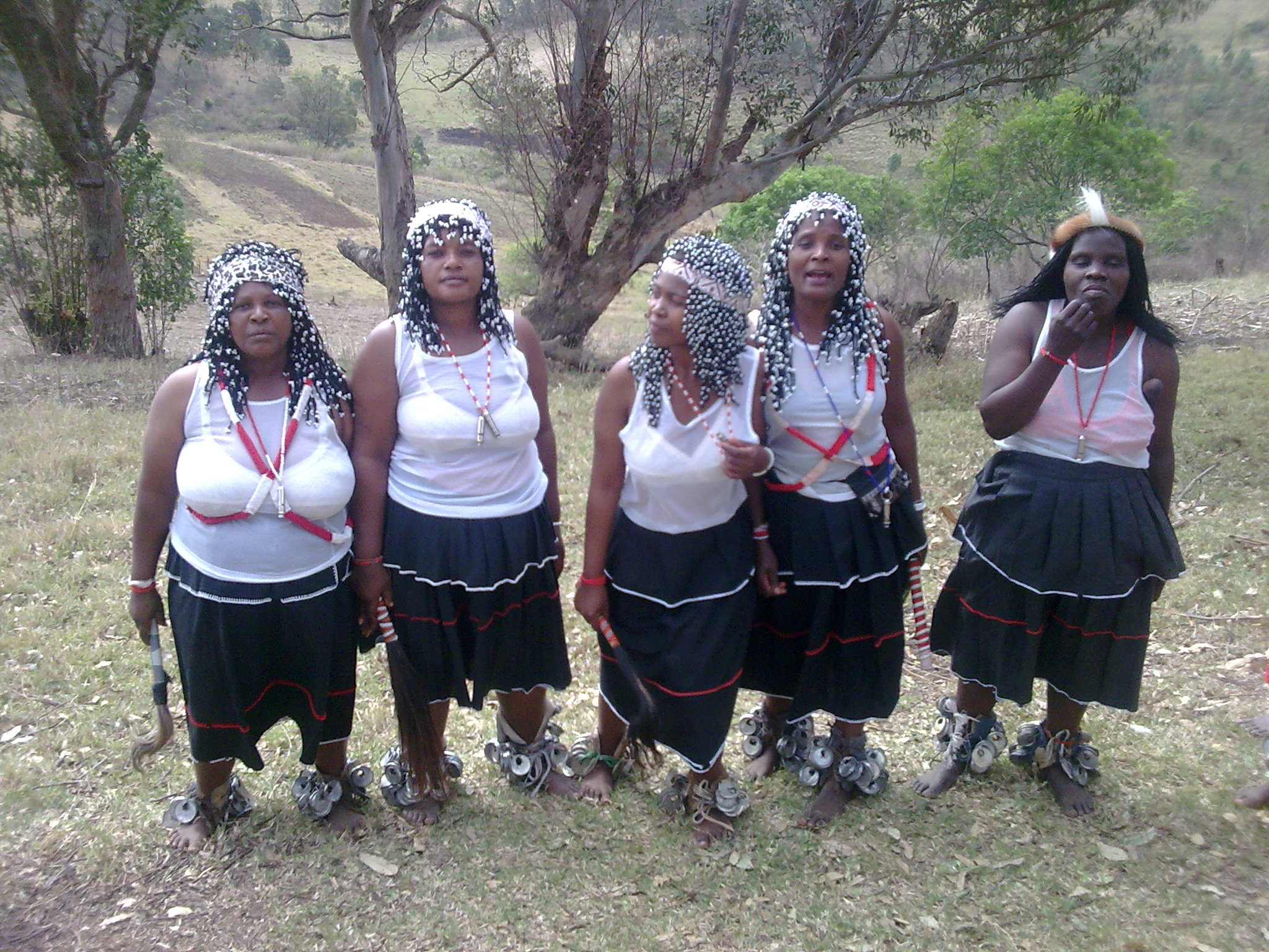 Five sangomas at an Umgido (Ceremony) in Zululand